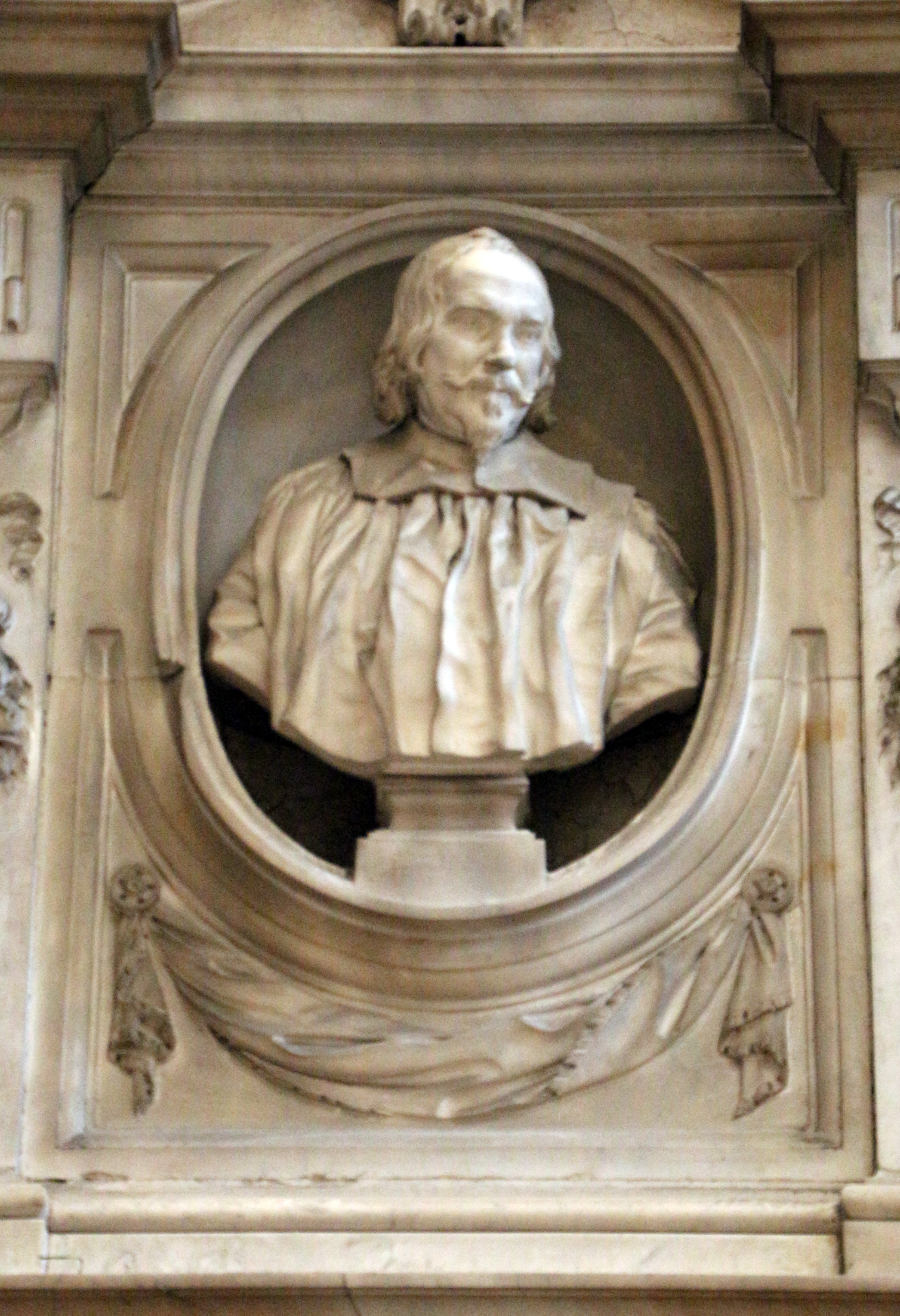 San Giovanni dei Fiorentini (Rome) - Interior